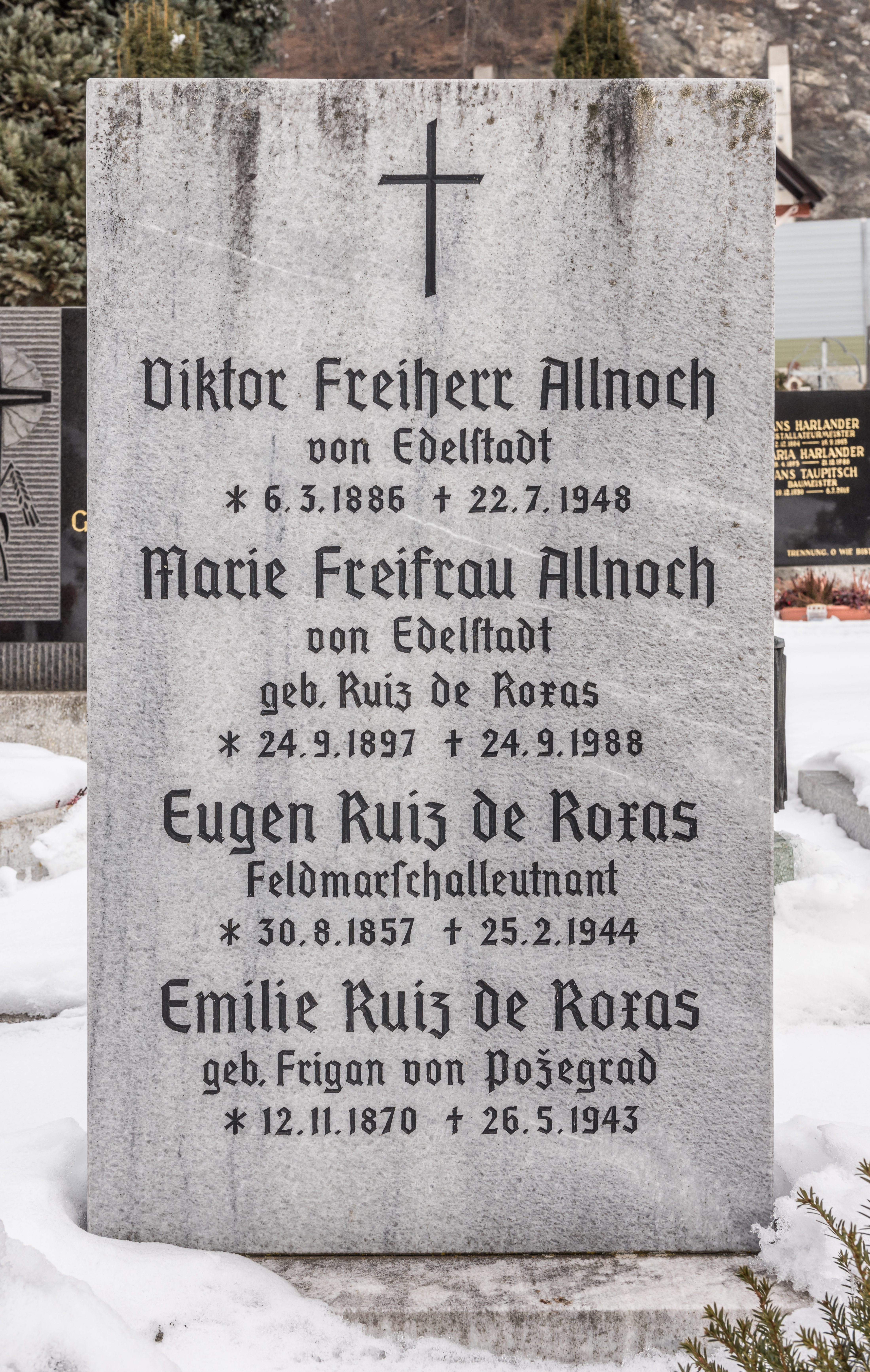 Grave of families Allnoch and de Roxas, local cemetery, municipality Poertschach on the Lake Woerth, district Klagenfurt Land, Carinthia, Austria, EU